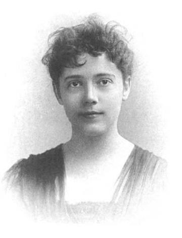 Photo of Elizabeth Bisland, journalist and novelist.